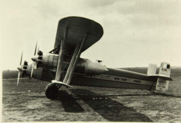 Rene Fonck's Orteig Prize-seeking Sikorsky S-35.